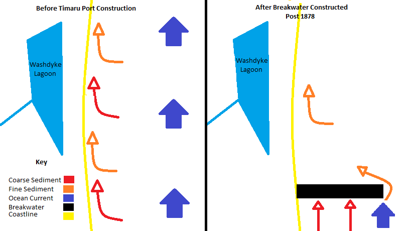 Diagram showing longshore drift of sediments and the effects of Timaru Port construction